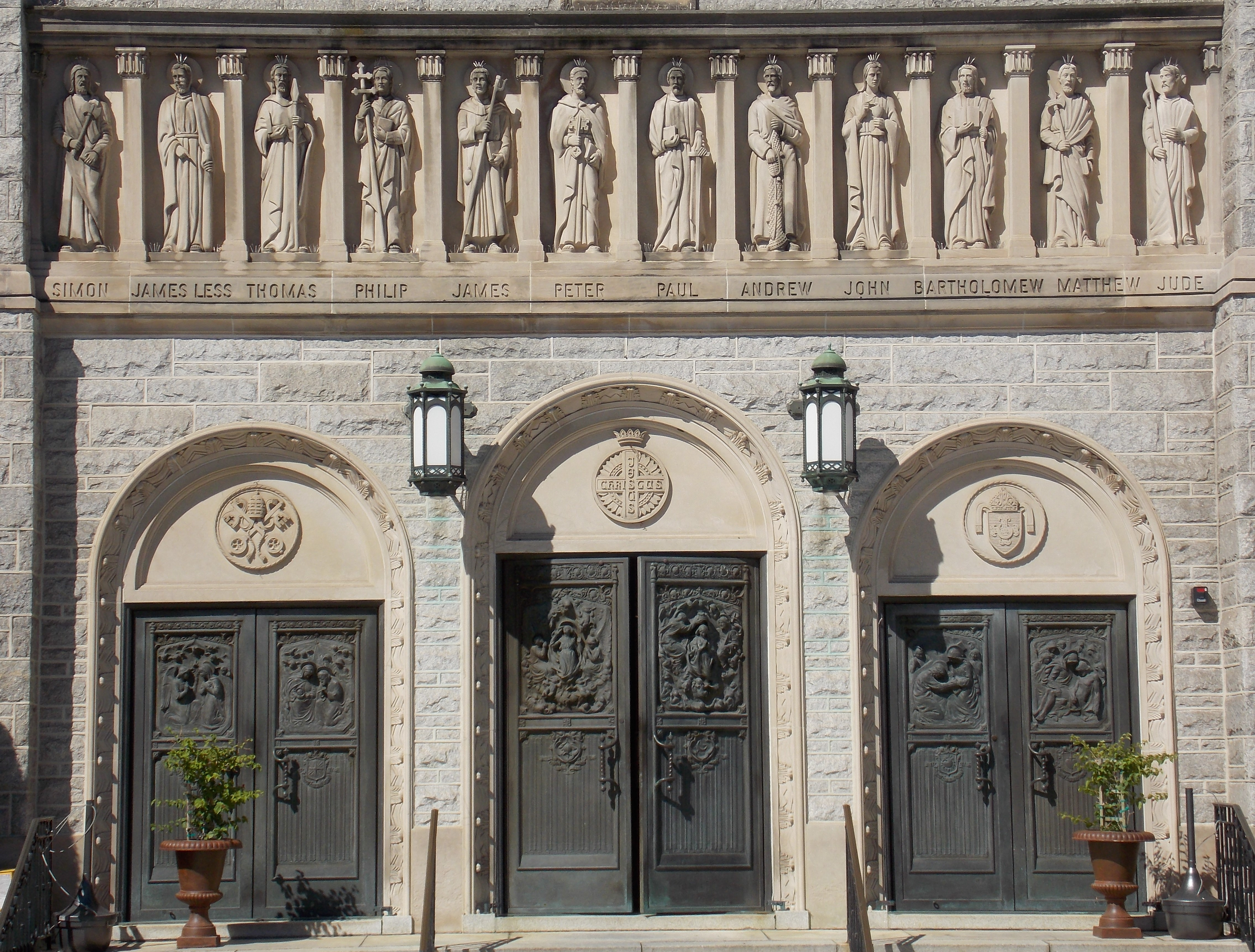 Cathedral of St. Mary of the Assumption in Trenton, New Jersey.